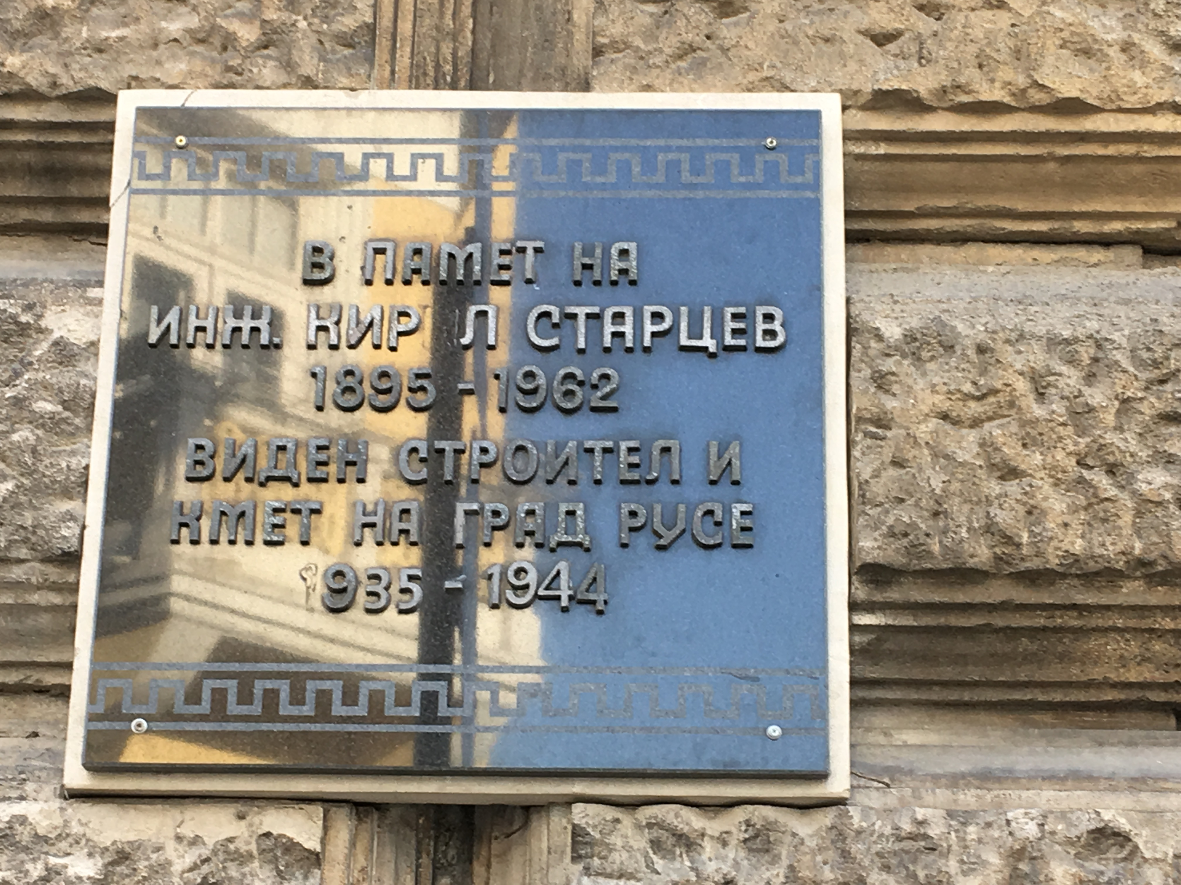 Kiril Starcev - Memory Silistra